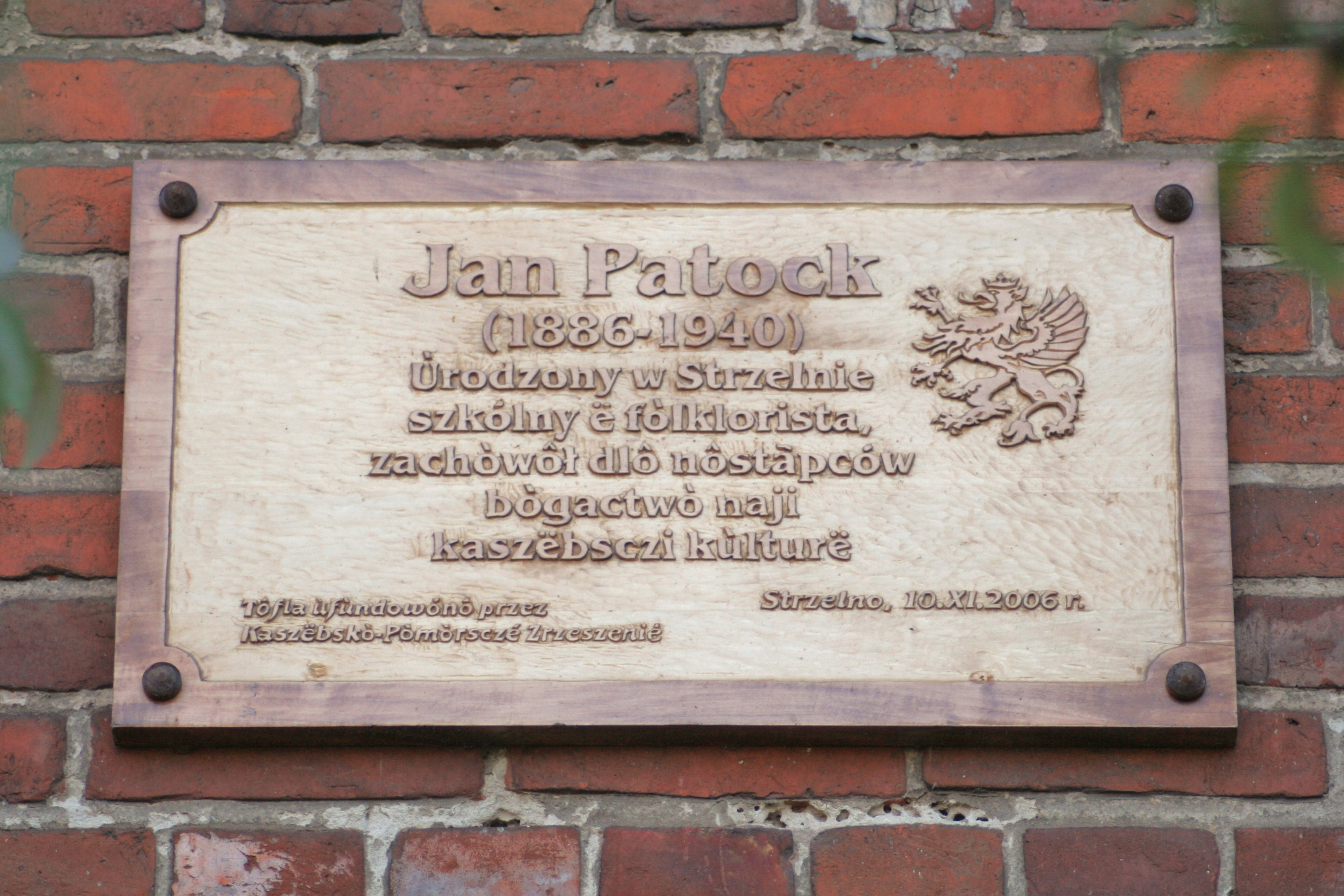 Jan Patock plaque in Strzelno.